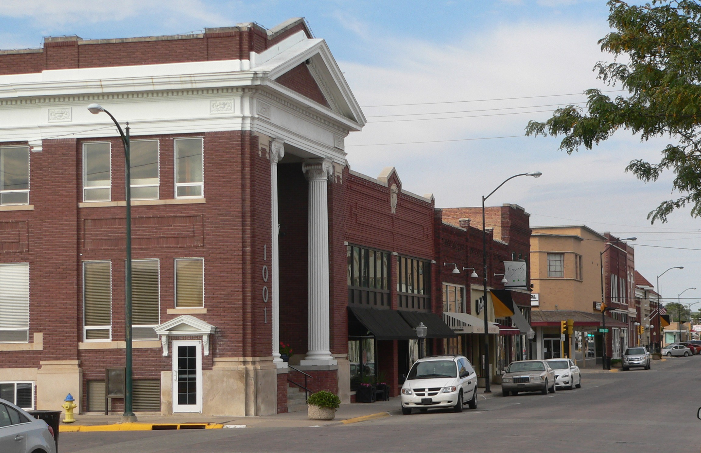 Downtown Hays, Kansas: west side of Main Street, looking north from the corner of 10th and Main. This section of Main is part of the Chestnut Street Historic District, listed in the National Register of Historic Places.